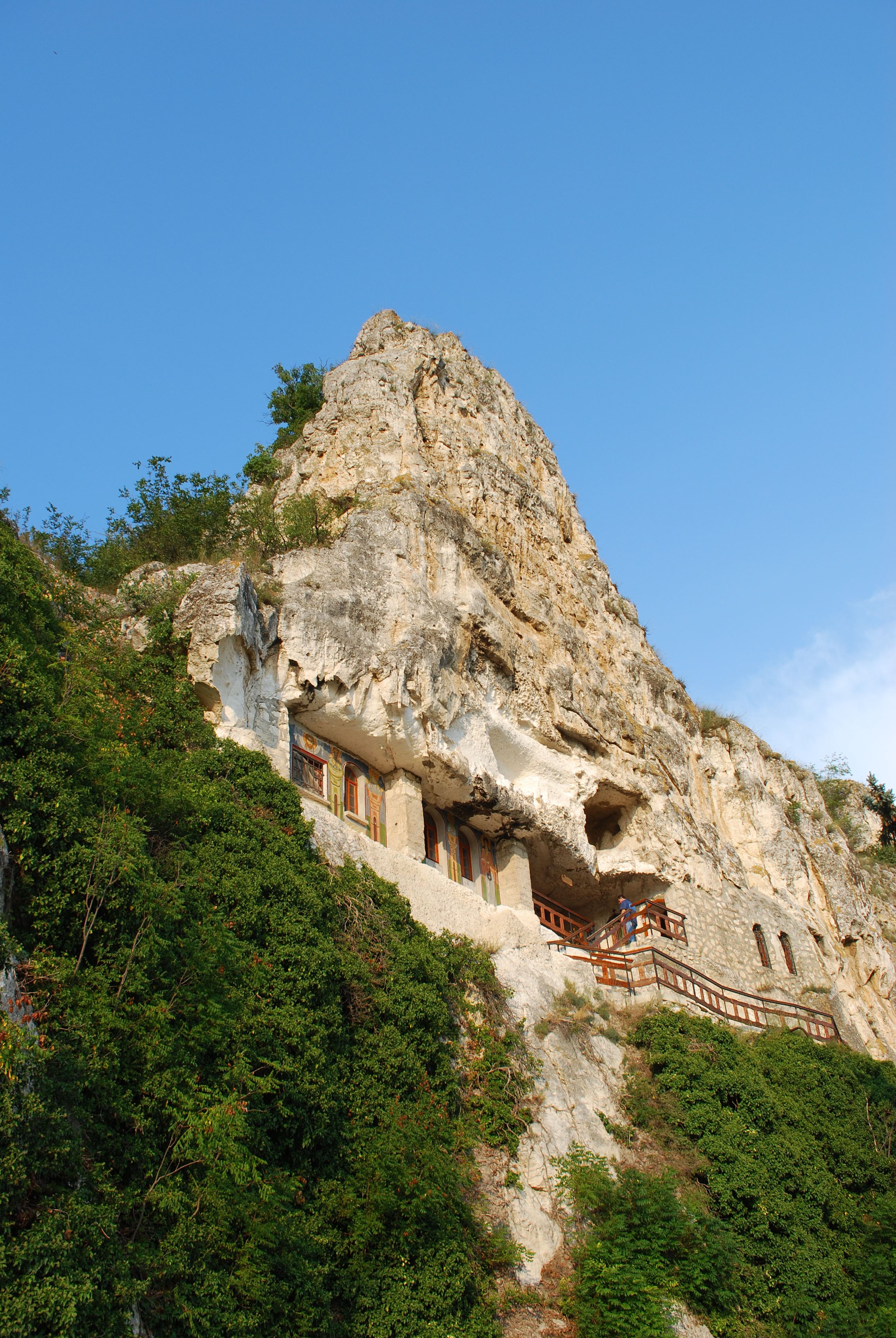 Dimitri Basarbov rock monastery in Basarbovo, Bulgaria